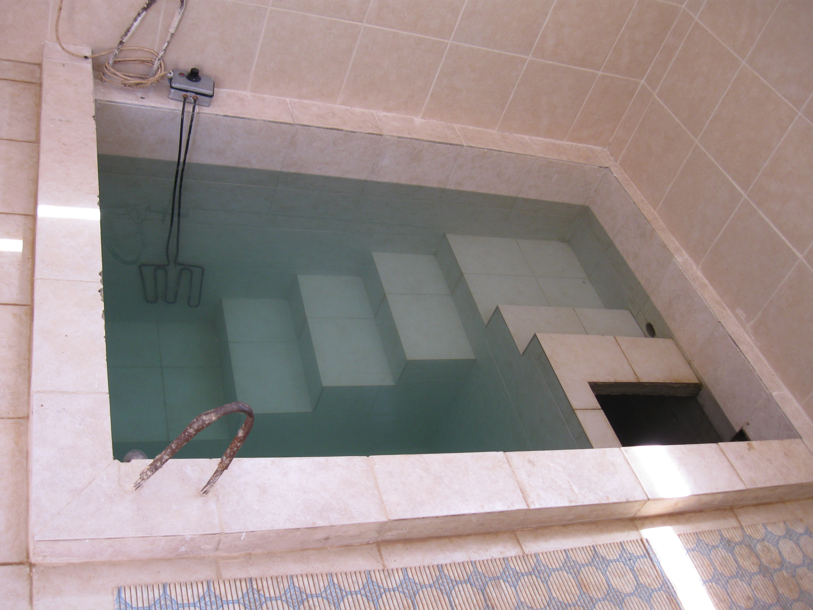 Modern mikvah